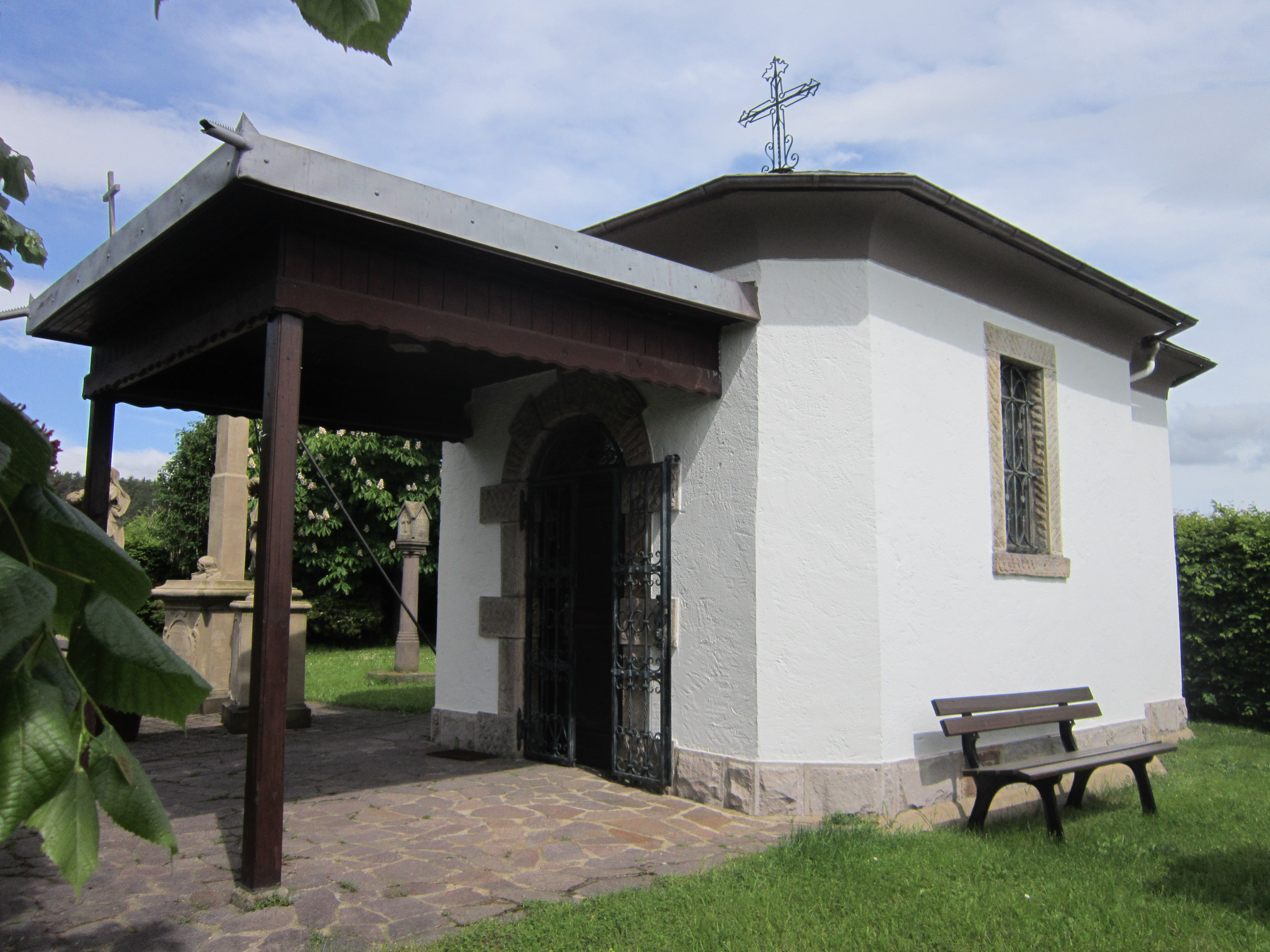 Chapel of "Sieben-Schmerz-Kapelle" in Wollbach, a quarter of the German town of Burkardroth in Lower Franconia (Bavaria).